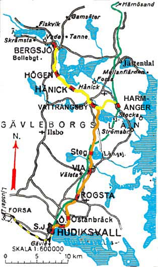 Map of the historical railway line between Hudiksvall and Bergsjo in Sweden